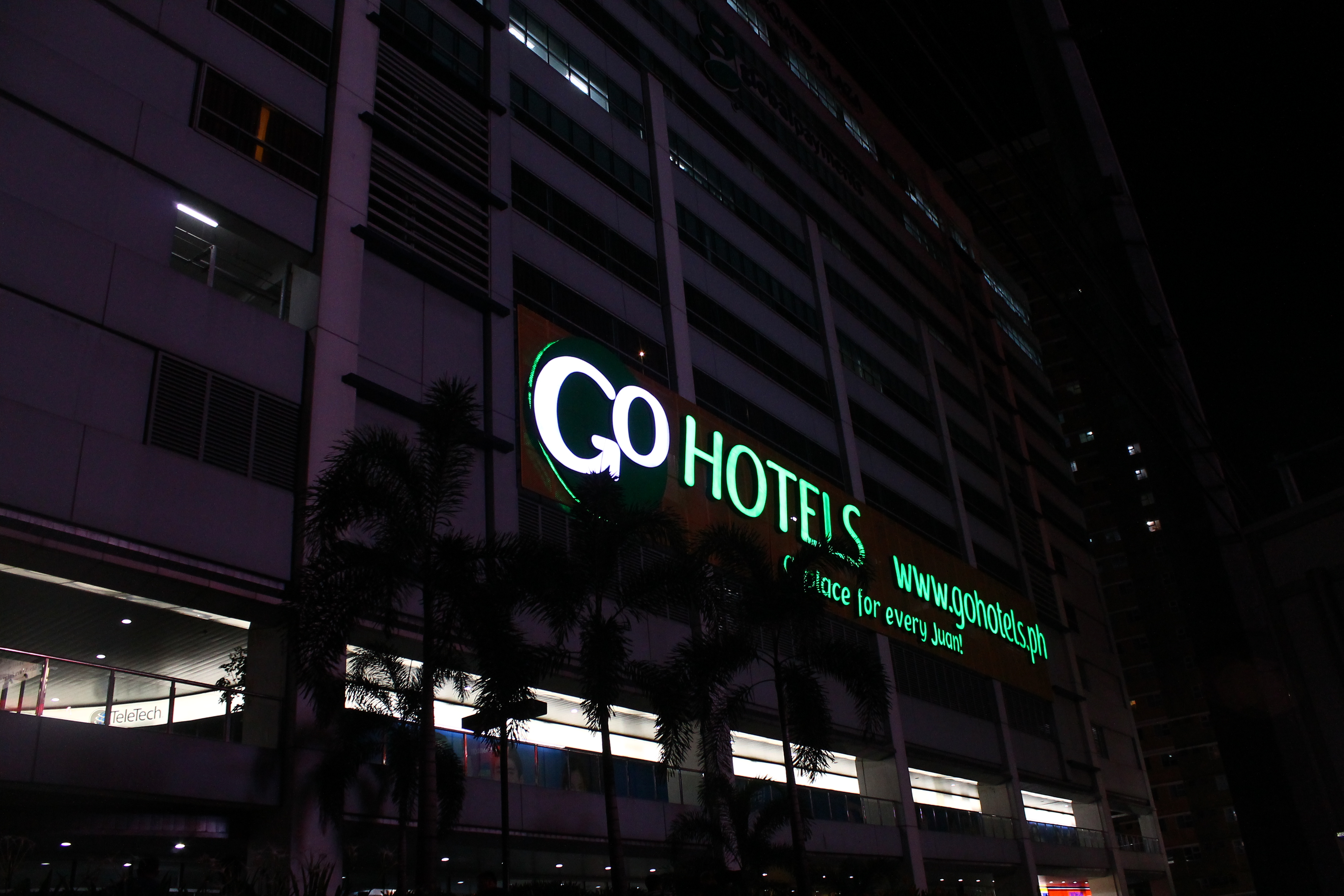 A famous hotel chain. This one is located at Boni Avenue, Mandaluyong City